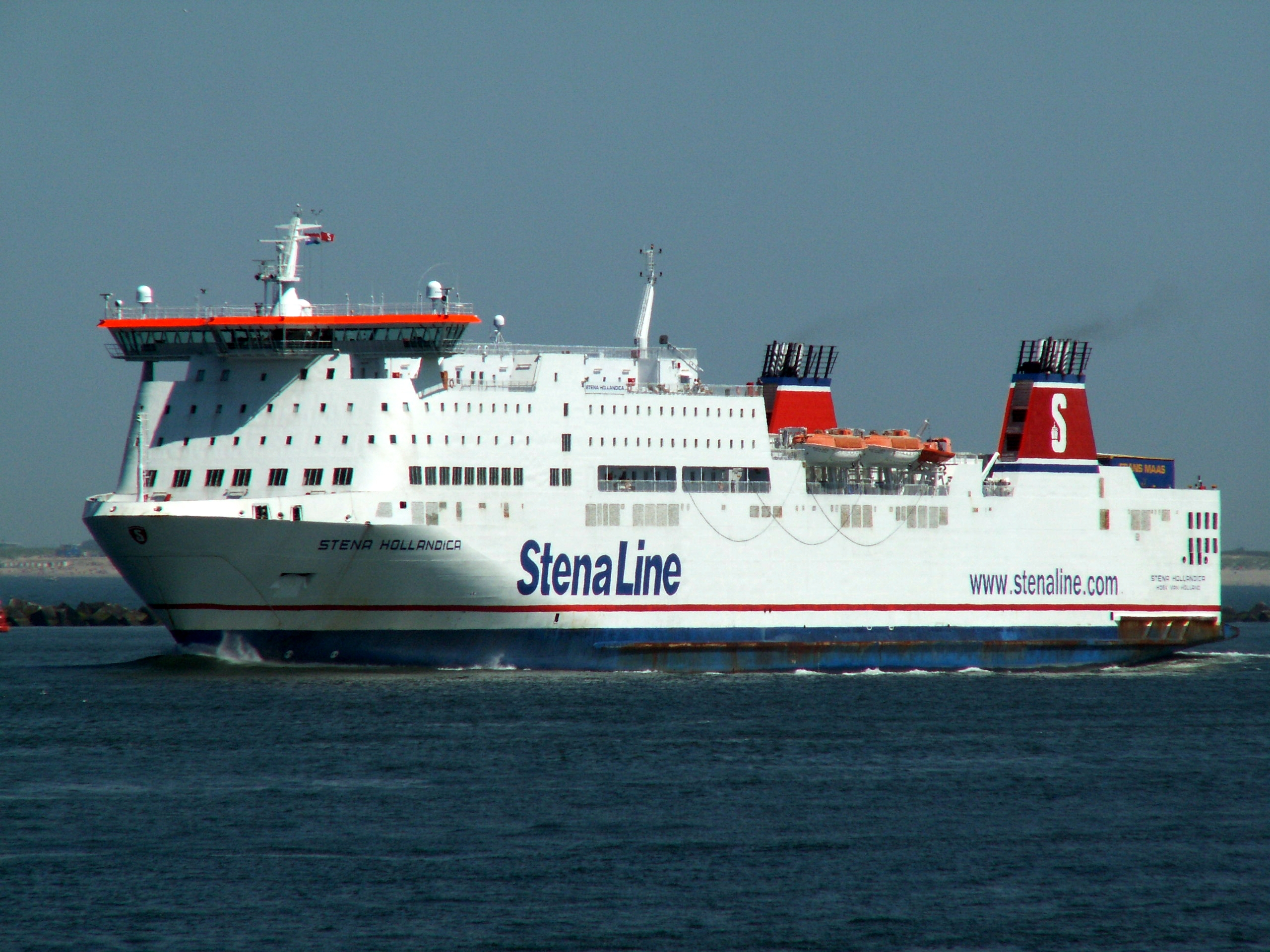 Stena Hollandica approaching Port of Rotterdam, Holland.